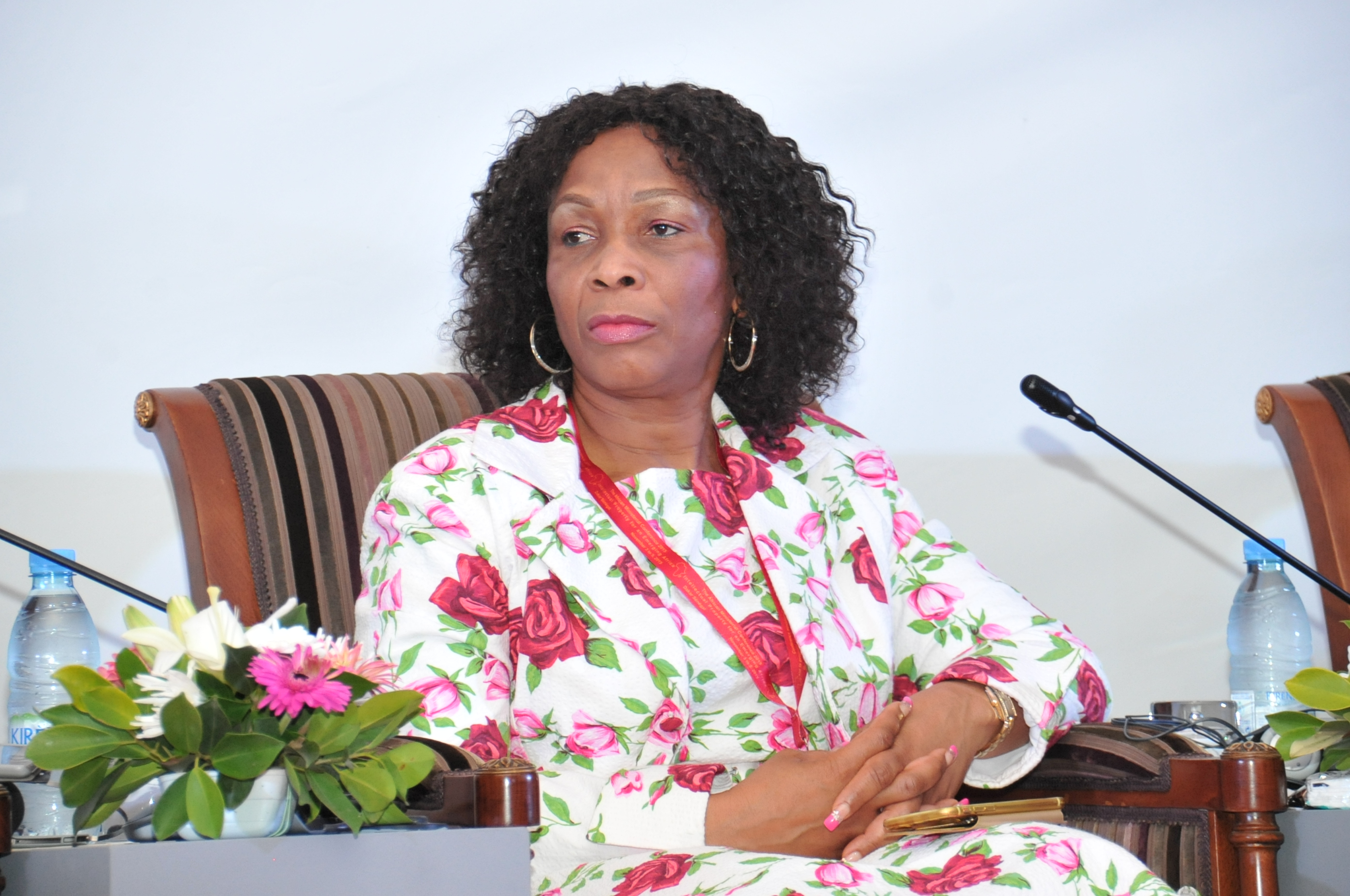 Snowy Khoza, Chief Executive Officer of Bigen Africa and President of Agape Christian Women's Network, took part in a high level segment on "Africa in a Knowledge-Based Economy-Challenges and Opportunities" organized in the context of the African Ministerial Conference 2015: Intellectual Property for an Emerging Africa, which met from November 3 – 5, 2015 in Dakar, Senegal. Copyright: WIPO. Photo: Cheikh Saya Diop. This work is licensed under a Creative Commons Attribution-ShareAlike 3.0 IGO License.